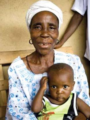 In Liberia, USAID is teaching women about nutrition and health for their children. The women learn which healthy foods to prepare for their children; how to avoid malaria; how, when and where to wash hands; when they should go to the nearest health clinic or hospital; how and when to use Oral Rehydration Salts to stop diarrhea, and other important health tips. Mothers with malnourished children and those that have children from 6-36 months attend the weekly sessions.